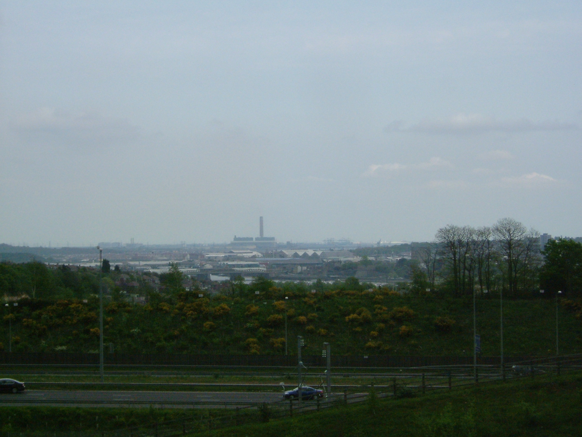 A view over Medway from Merrall's Shaw, Ranscombe Farm, Cuxton. In the foregrounfd is the M2 motorway, then there is Rochester Bridge , with the castle obscured by trees. The next roofs are those of the covered slips at Chatham Dockyard, then there is the power station at Kingsnorth, and behind and to the left the power stations at Grain, and the Thames estuary.